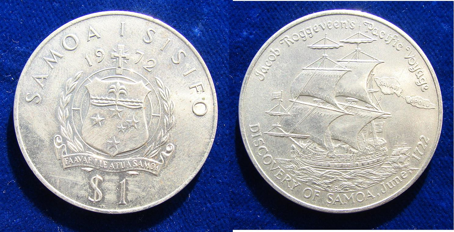 Roggeveen, Jacob, Captain & Explorer, 1659 Middleburg, Zeeland, The Netherlands - 1729 Middleburg Western Samoa national arms below date, around : "SAMOA I SISIFO value" / 2 sailing ships below the islands of Savaii and Upolu, surrounding: "Jacob Roggeveen's Pacific Voyage DISCOVERY OF SAMOA, June, 1722". KM 11. Condition: UNCIRCULATED, MS 63.